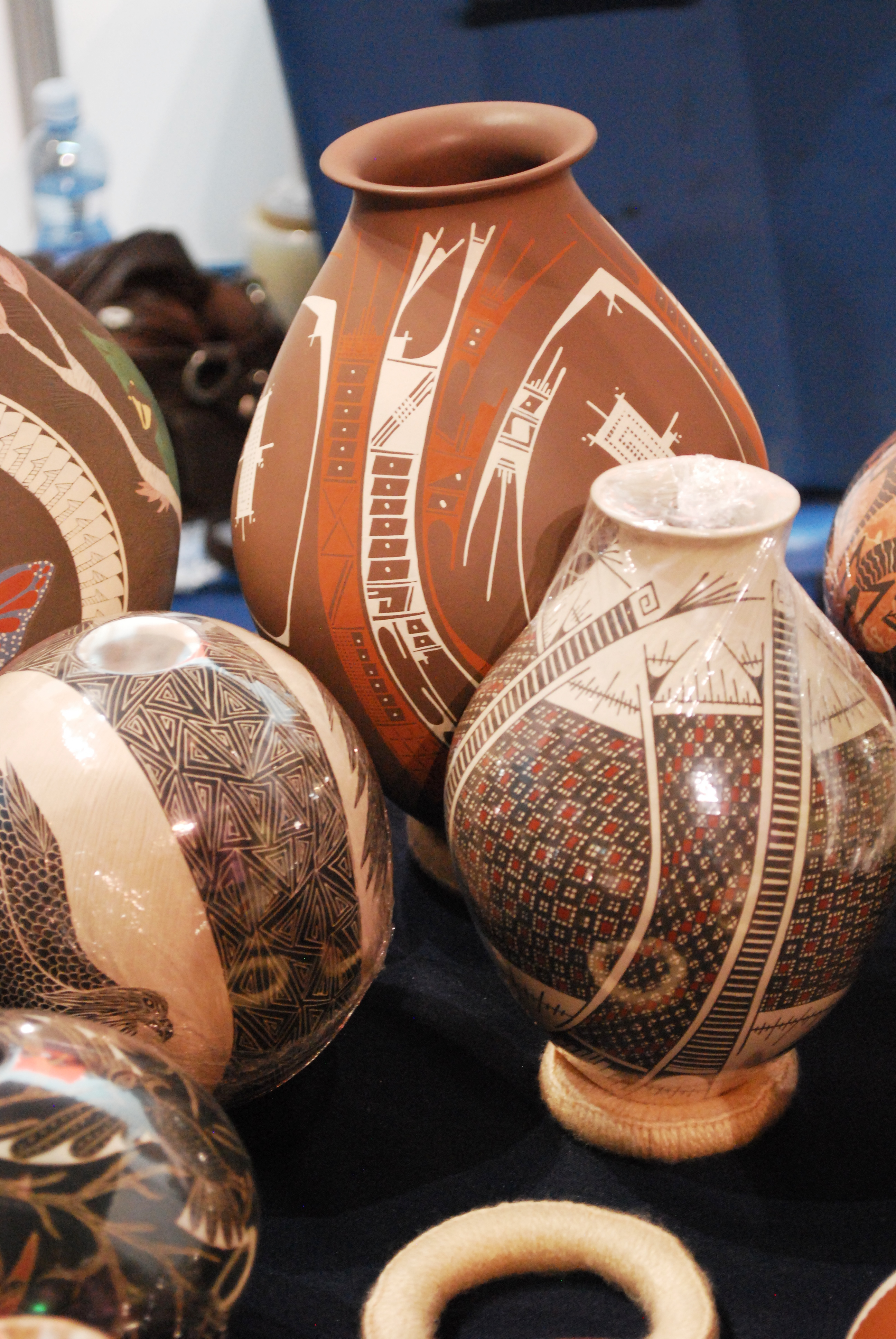 Mata Ortiz pottery from Chihuahua on display at the 2010 FONART exhibition in Mexico City